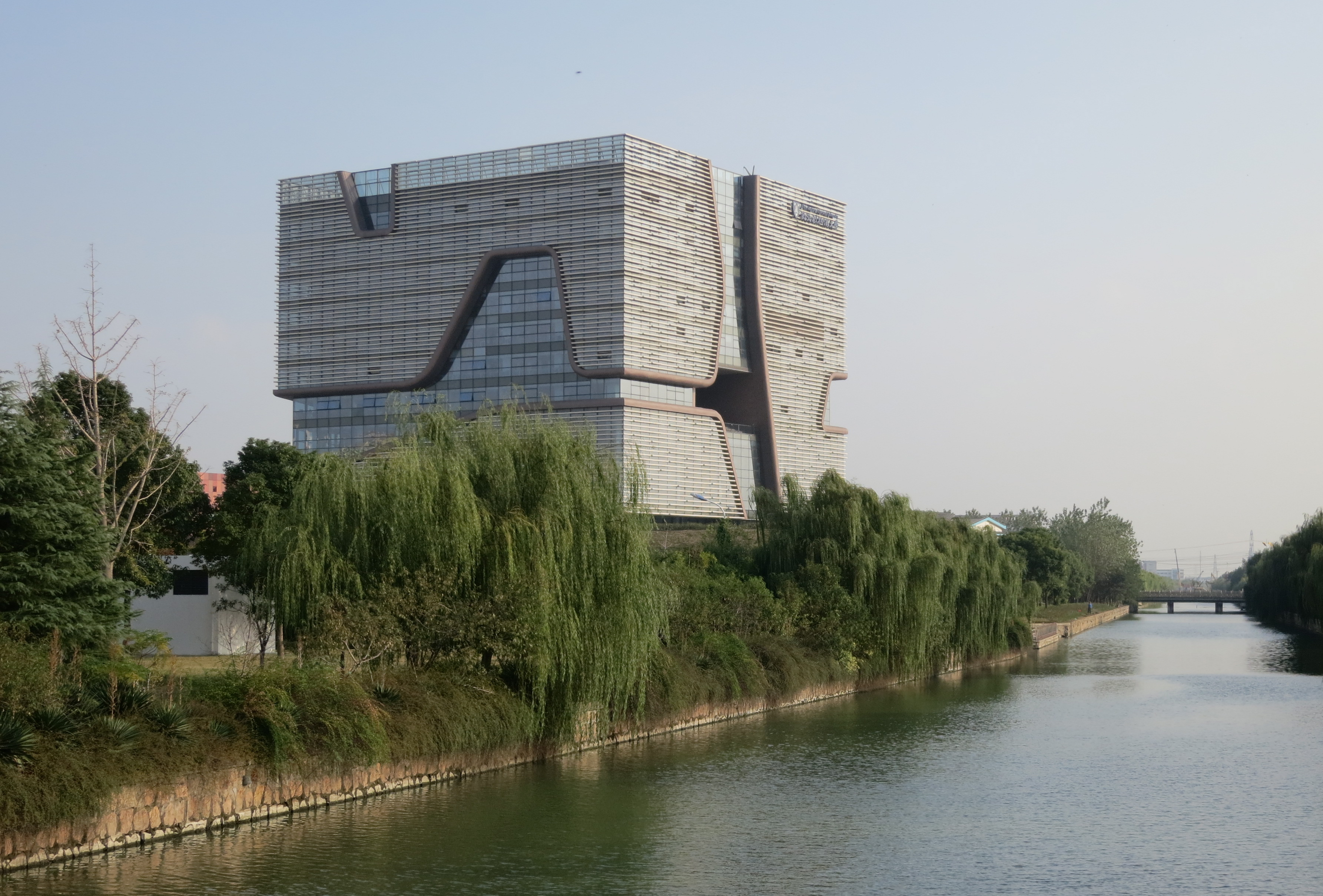 Administration and Information Center of Xi'an Jiaotong-Liverpool-University